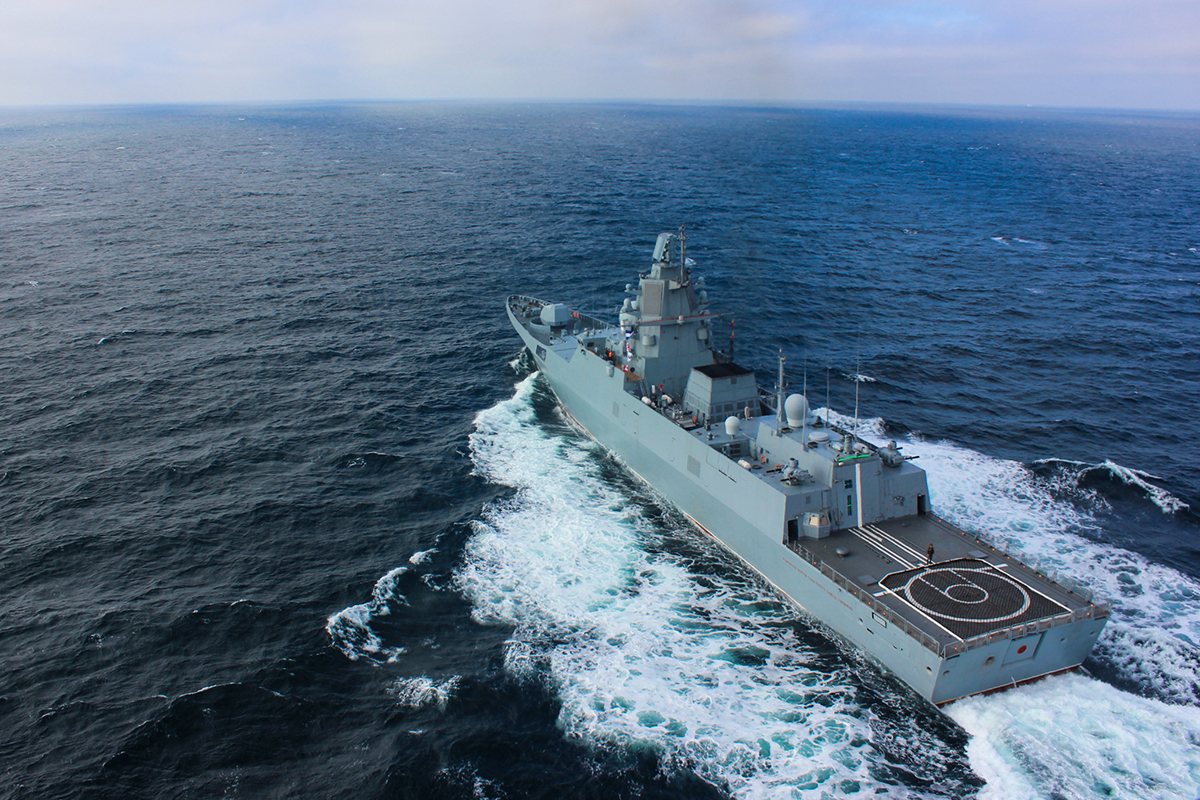 Admiral Gorshkov Russian frigate